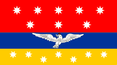 War ensign of the Principality of Wallachia, 1834